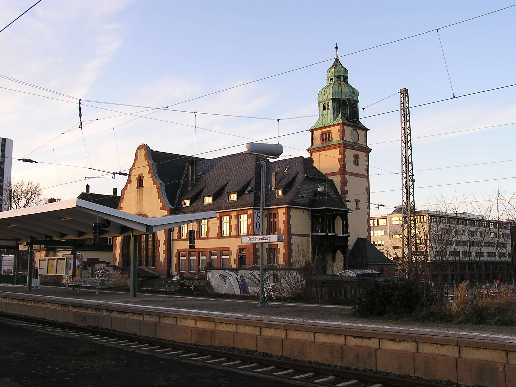 Station Bad Homburg at the S5, main building. The rails are high so that the entry of the building leads directly to the undercrossing.